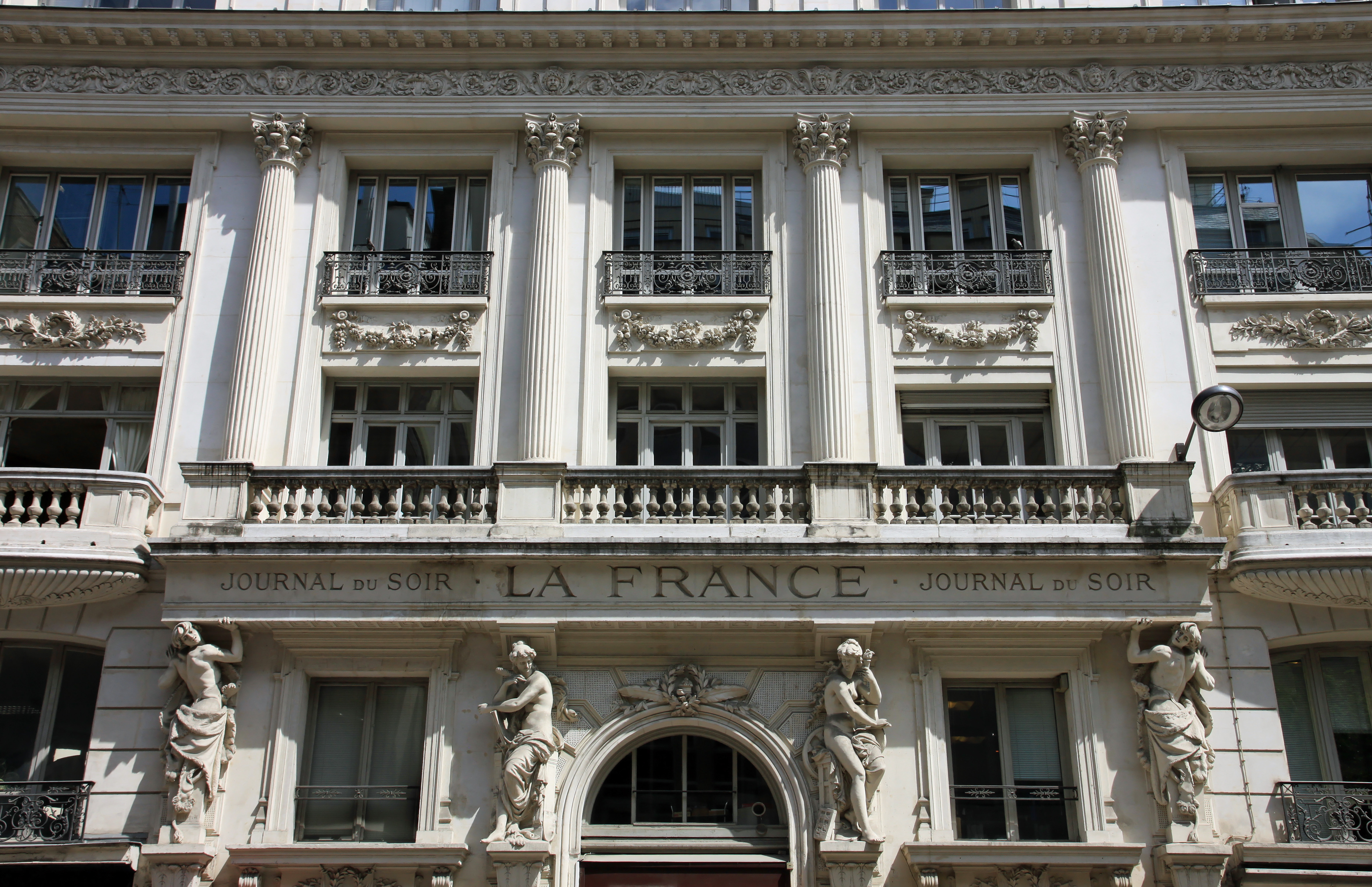 Head office building of "La France" evening newspaper, 142 rue Montmartre, Paris. Built between 1883 and 1885 by architect Ferdinand Bal. Sculptures were made by Ernest-Eugène Hiolle and Louis Lefèvre.